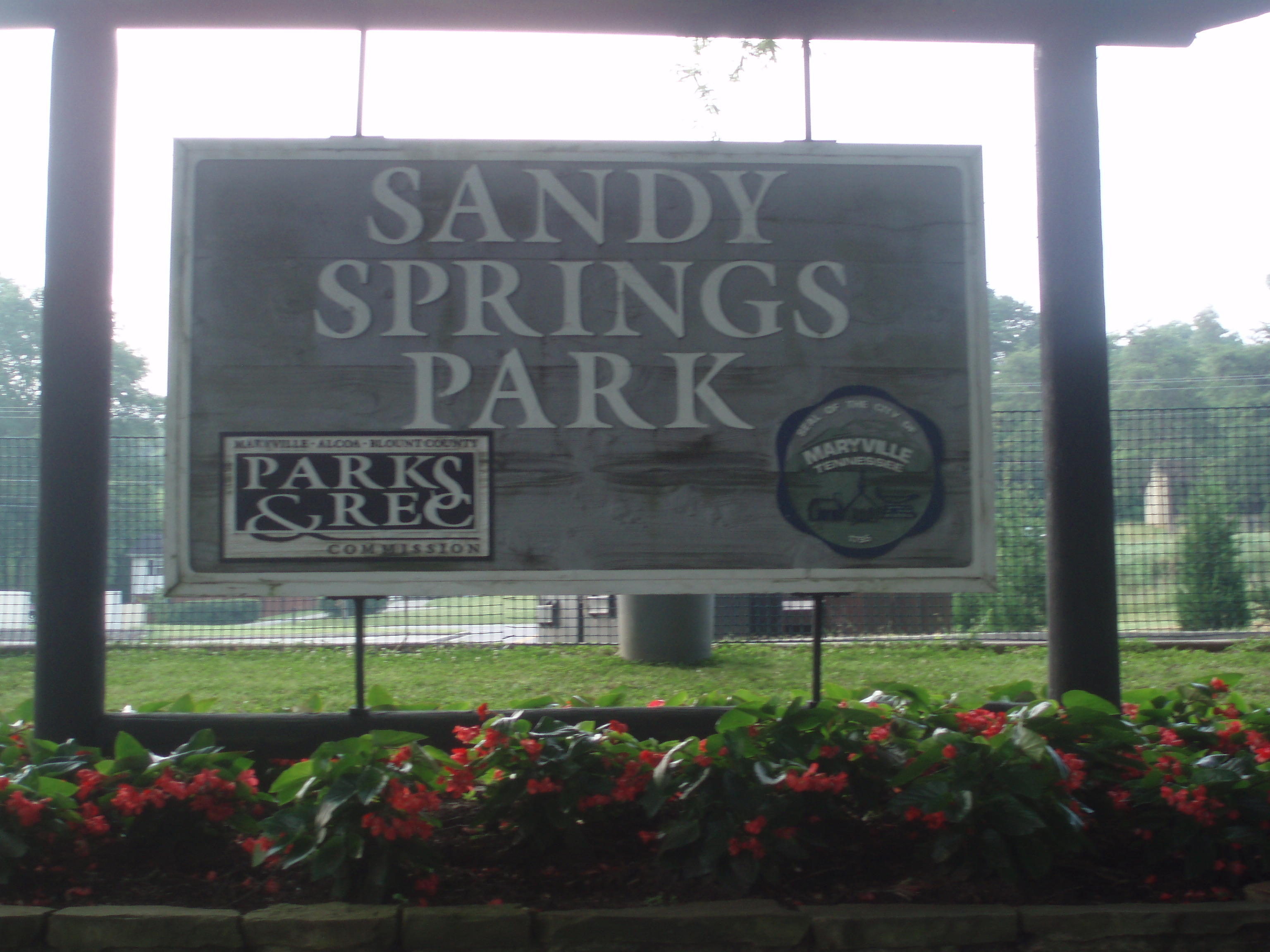 Sign for Sandy Springs Park in Maryville, Tennessee.